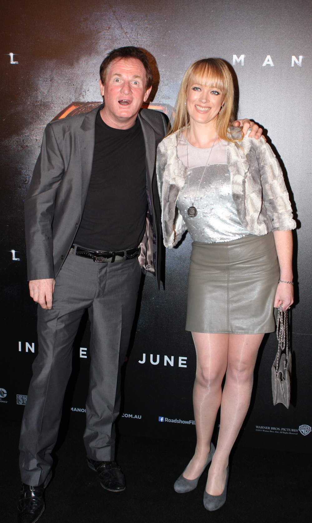 Russell Gilbert and Rochelle Nolan at Man Of Steel movie premiere, Sydney 2013